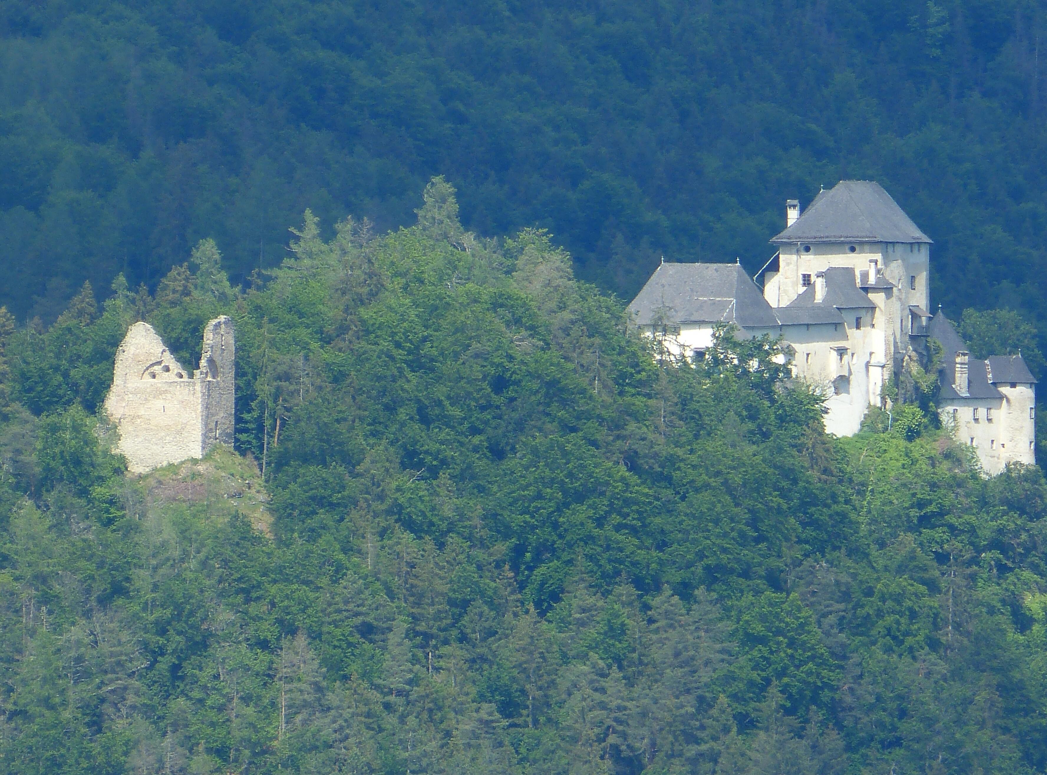 Castle ruins Altmannsberg and Castle Mannsberg, municipality Kappel am Krappfeld, district St. Veit an der Glan, Carinthia / Austria / EU